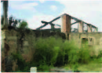 Fazenda do Pocinho: detalhe das ruínas.